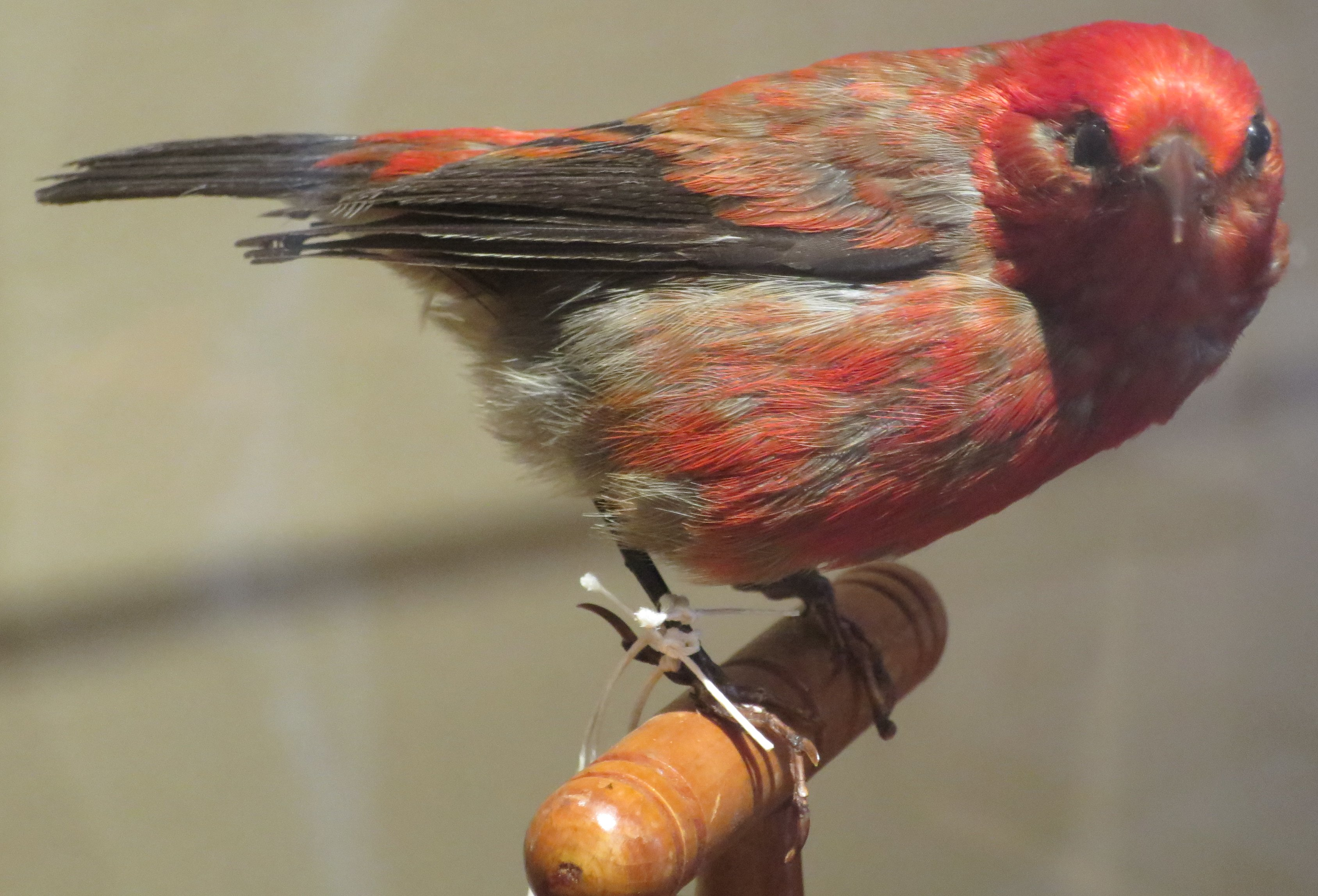 Himatione sanguinea ('Apapane), Bishop Museum, Honolulu